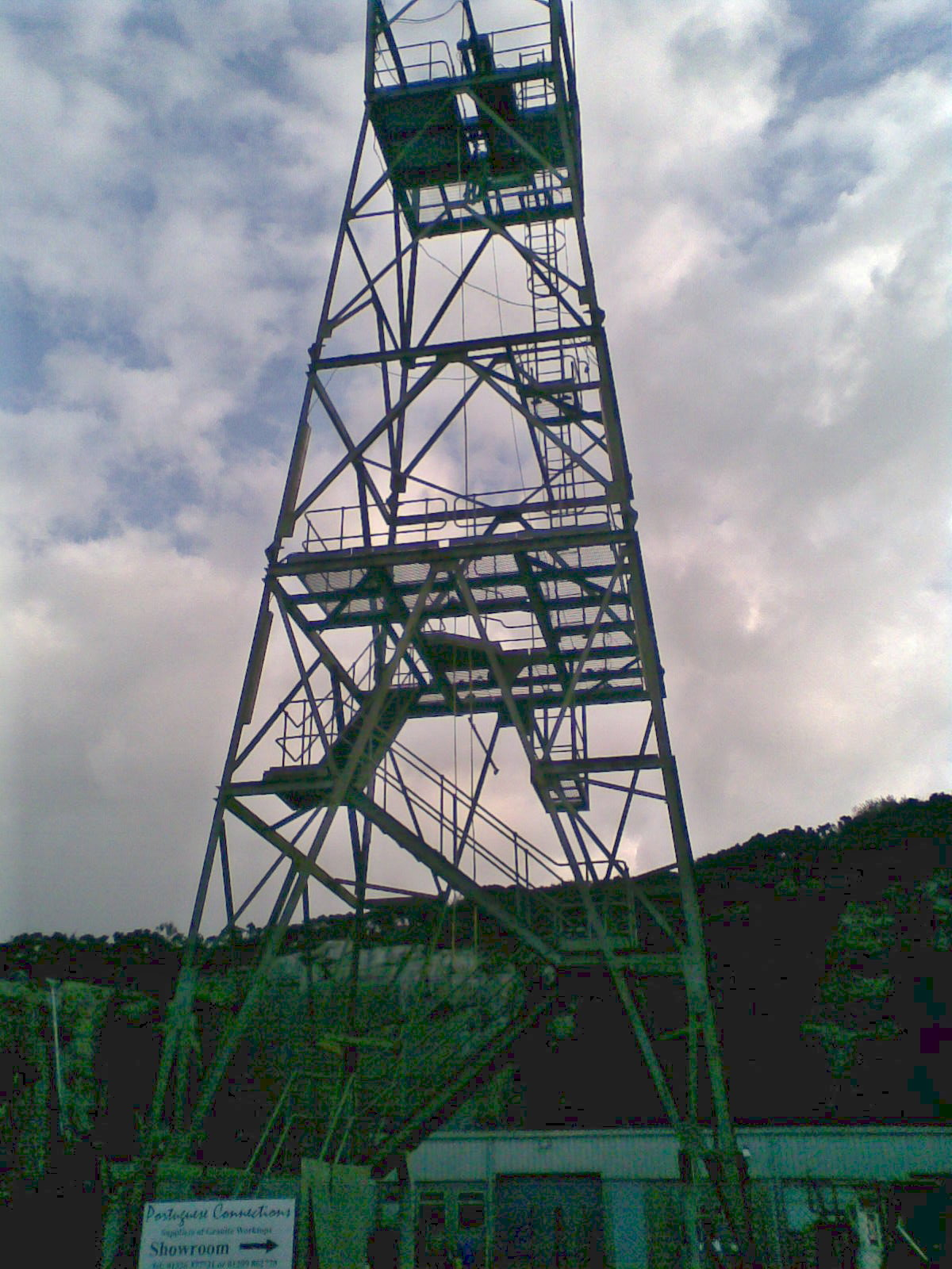 Rosemanowes Quarry, Hernis, Cornwall, site of the Hot Dry Rocks project. Drilling Tower